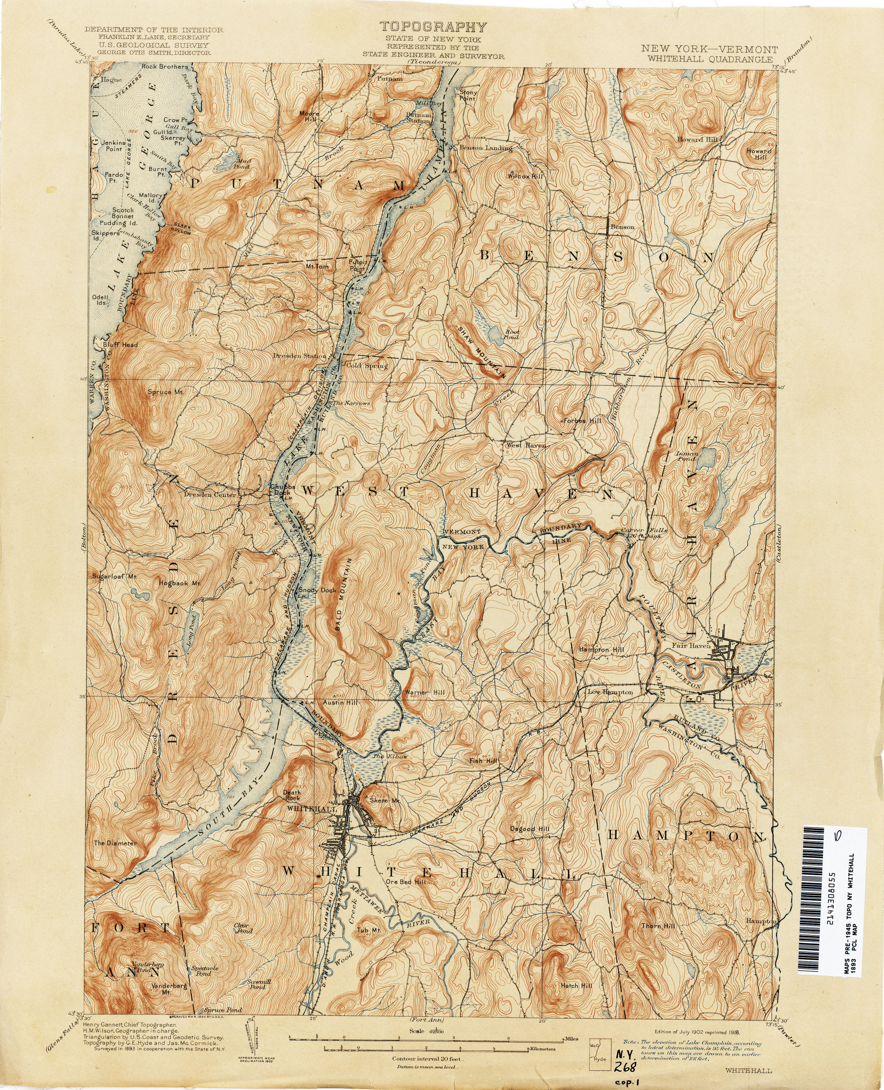 Old United States Geological Survey quad map of the Adirondacks in NY State; image of this topographical quadrangle map retrieved from archive at Old Book Art website.